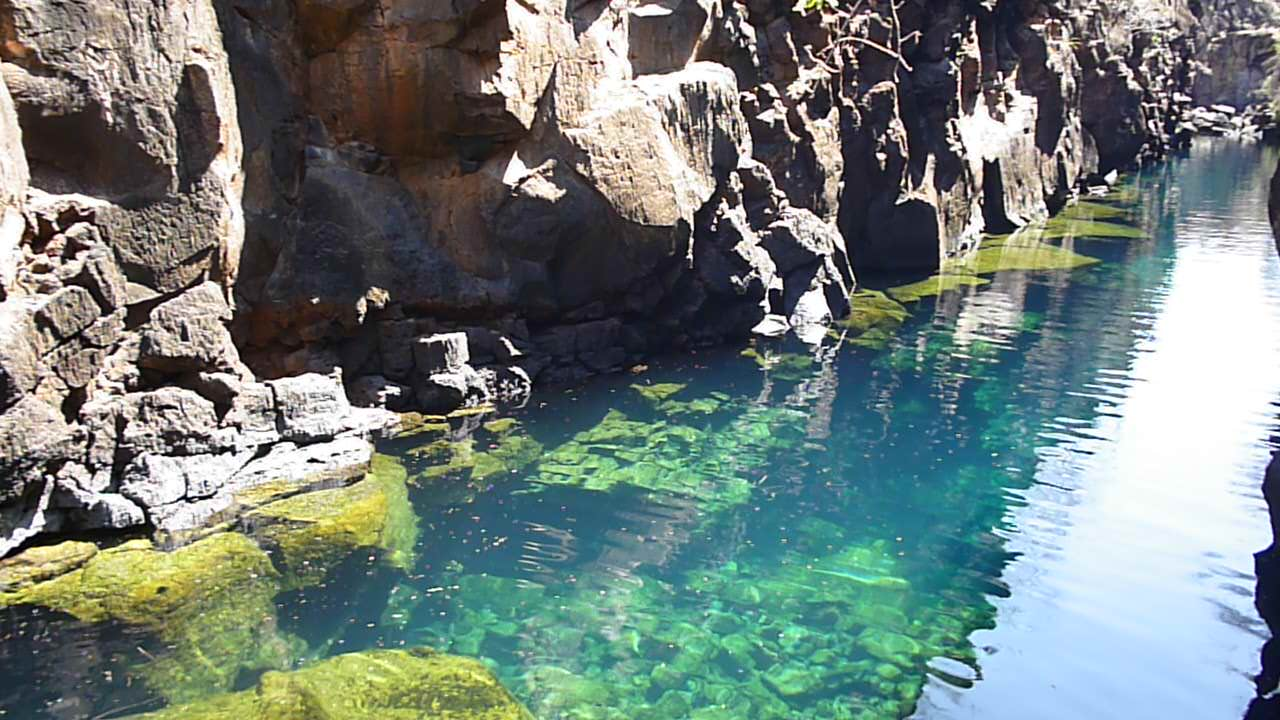 Santa Cruz Island is one of the Galápagos Islands with an area of 986 square kilometres (381 sq mi) and a maximum altitude of 864 metres (2,835 ft). Situated in the center of the archipelago, Santa Cruz is the second largest island after Isabela. Its capital is Puerto Ayora, the most populated urban centre in the islands. On Santa Cruz there are some small villages, whose inhabitants work in agriculture and cattle raising. This island is a large dormant volcano. It is estimated that the last eruptions occurred around a million and a half years ago. Puerto Ayora, at night, Galápagos Province, Ecuador As a testimony to its volcanic history there are two big holes formed by the collapse of a magma chamber: Los Gemelos, or "The Twins". Named after the Holy Cross, its English name (Indefatigable) was given after a British vessel HMS Indefatigable. Santa Cruz hosts the largest human population in the archipelago at the town of Puerto Ayora, with a total of 12,000 residents on the island. wikipedia